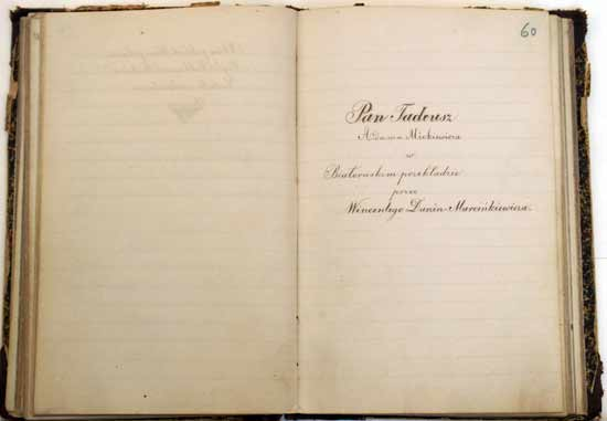 Preface to the first translation of Adam Mickiewicz's epic poem «Pan Tadeusz» into Belarusian language (the first page) made by Belarusian playwriter and poet Vincent Dunin-Marcinkievič in 1859. The poem and the preface itself were rewrited by Belarusian linguist, literary critic and folklorist Branisłaŭ Epimach-Šypiła in 1893 from the Wilno edition of the first poem's translation. Беларуская (тарашкевіца): Прадмова Вінцэнт Дунін-Марцінкевіча да яго перакладу (1859 г.) паэмы Адама Міцкевіча «Pan Tadeusz» на беларускую мову (першы аркуш). Паэма і прадмова да яе, перапісаныя Браніславам Эпімах-Шыпілам у 1893 г. з экзэмпляра, выдадзенага ў Вільні ў 1859 г.